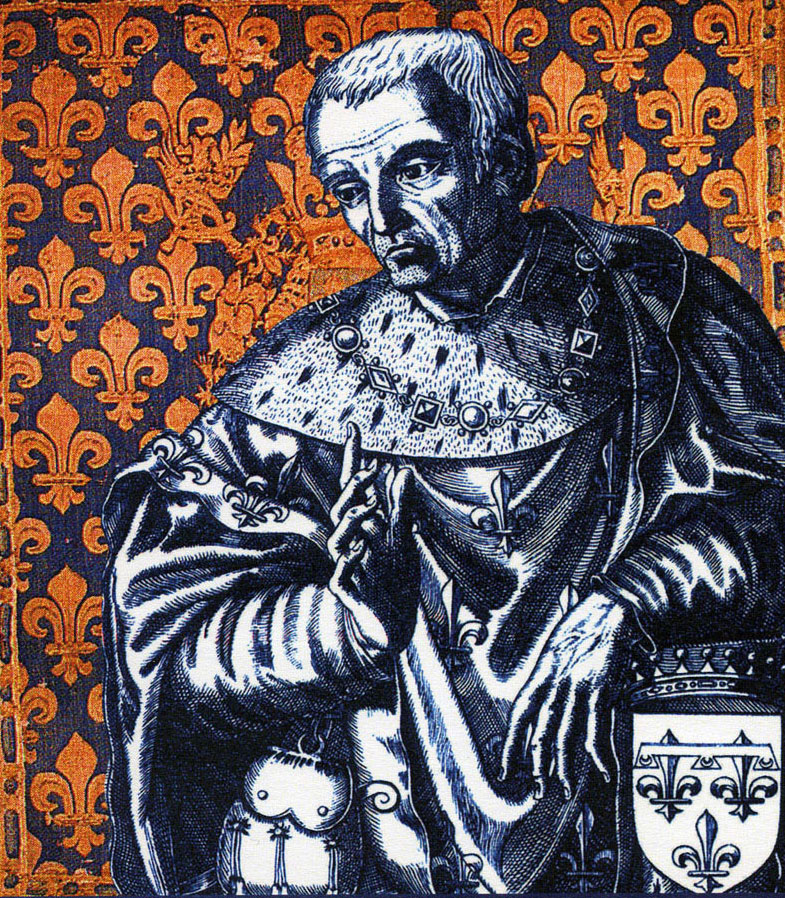 A sketch of the count of Angouleme